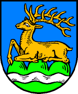 Source: "Fahnen-Gärtner GmbH, Mittersill" This file depicts a coat of arms. The composition of coats of arms are generally public domain with respect to copyright laws, and may be reproduced freely. This corresponds to the international traditional usage, and is explicitly stated in some national copyright laws. Some compositions, of more recent origin, may be copyrighted. This is not a valid license as such, being a "public domain" statement for the coat of arms definition only. It must be completed with the copyright tag associated to the picture creation. See Commons:Coats of arms for further information. Please note that this applies only to the coat of arms definition (composition / description). The representation of a coat of arms is an artistic creation, subject as such to copyright laws. Restriction of use - Legal notice: Most of the time, the usage of coats of arms is governed by legal restrictions, independent of the status of the depiction shown here. A coat of arms represents its owner. Though it can be freely represented, it cannot be appropriated, or used in such a way as to create a confusion with or a prejudice to its owner. Usage on Commons: Please provide licence information for the coat of arm representation, information for the author of the picture, and the source if not self-made work.